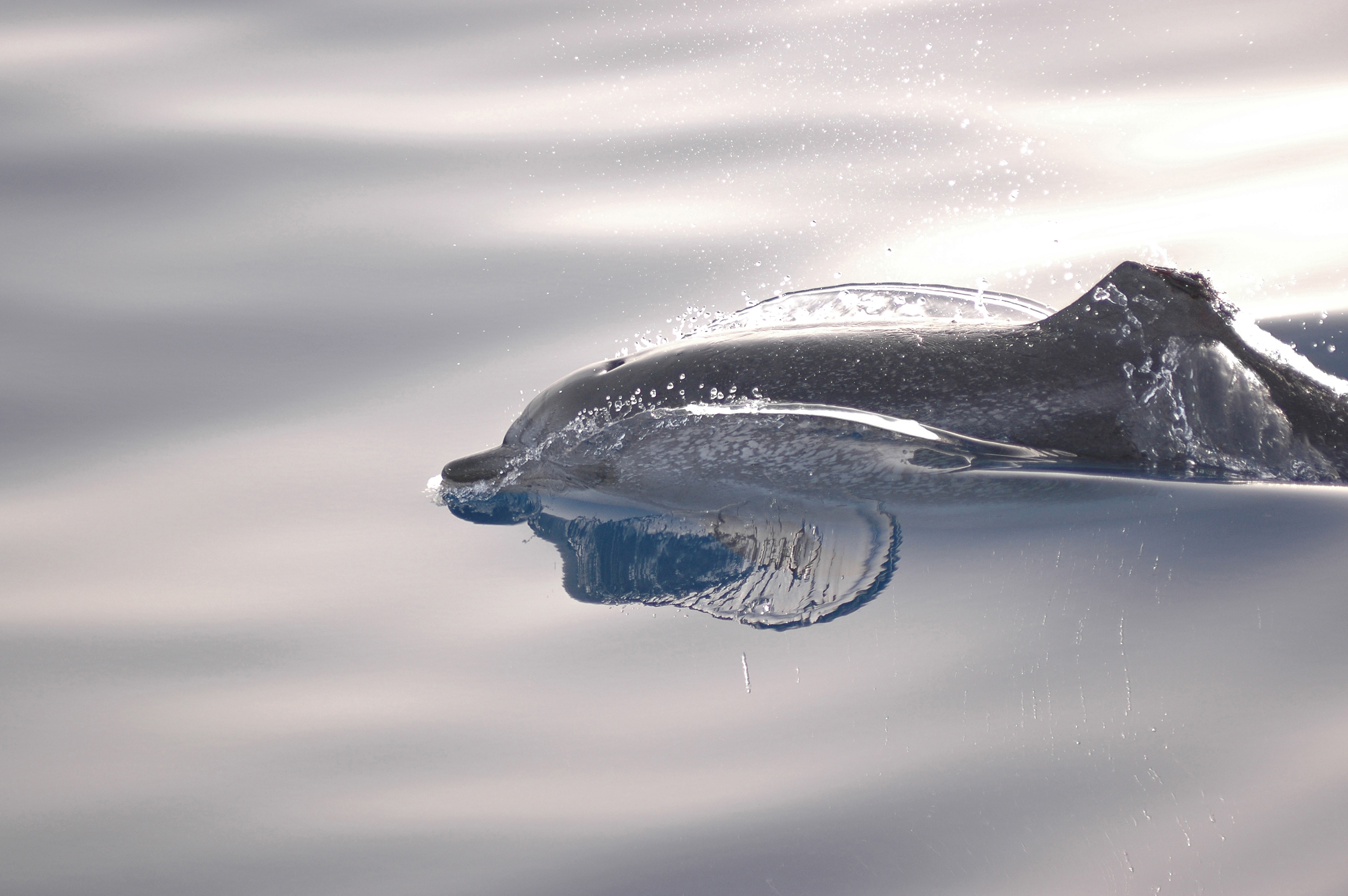 Atlantic Spotted Dolphin with an injured dorsal fin, perhaps cut by a ship propeller, a fishing net or a fishing line.